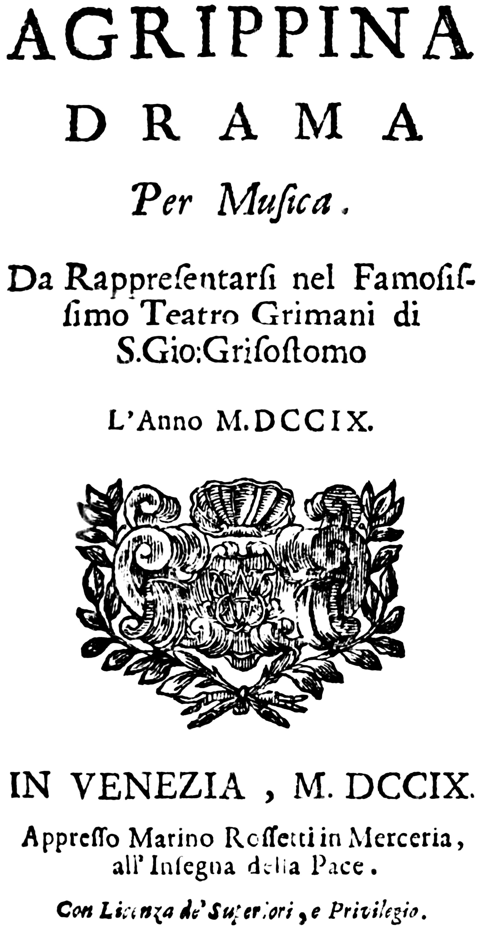 Cover of libretto for the first performance of Agrippina in Venice